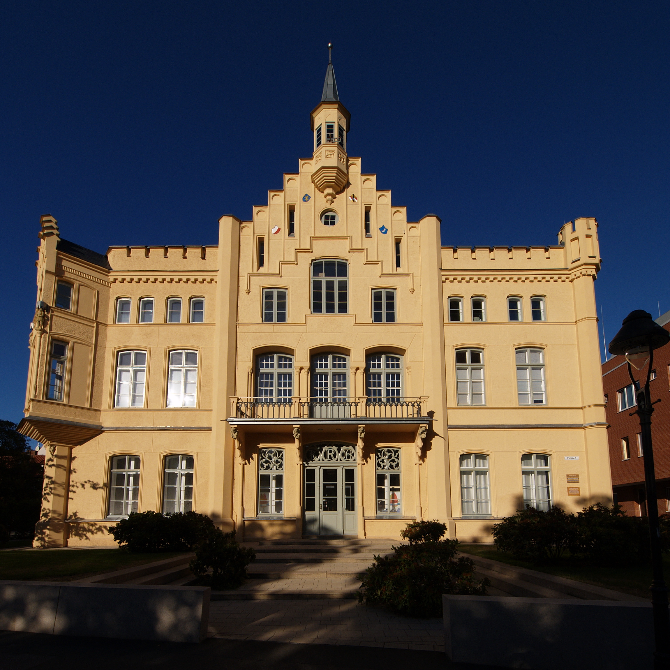 Front of Schloss Rantzau in Lübeck, Germany